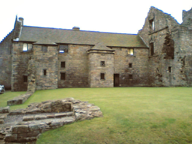 Aberdour Castle. Aberdour was originally owned by the de Mortimer family in the 12th century then the Douglases in 1342. The Earl of Morton moved in around 1456 and generations of the family owned until 1790. The tower house collapsed in ruins in 1844. In 1924 it was turned over to the state and declared an ancient monument. More